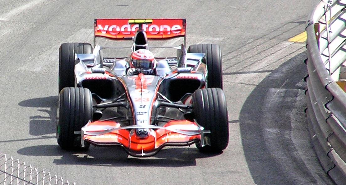 Heikki Kovalainen driving for McLaren at the 2008 Monaco Grand Prix.